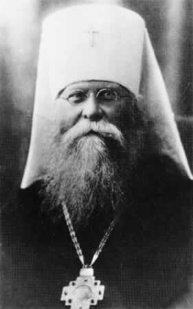 Metropolitan Joseph (Ivan Petrovykh)